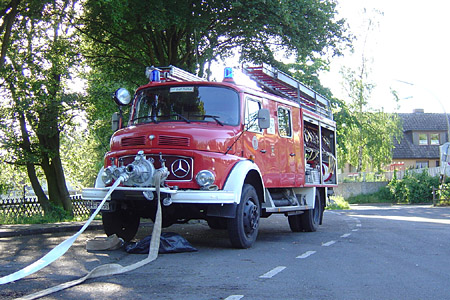 This kind of fire engine is commonly used all over Germany as a large number of this type has been bought in the 1980ies for purposes of the federal desaster defense service. The image depicts one of these standard fire engines which at that time had been in use at Hamburg Gross Flottbek Voluntary Fire Department. The exact equipment configuration can be looked up at this page from the German Wikipedia. The vehicle's equipment is defined by the standard of so-called "LF 16-TS" which includes a large amount of hoses, nozzles, and two fire-pumps, three kinds of ladders (on top of the truck), two SCBA sets - and a lot more. Picture taken in the summer of 2004 during a training session.